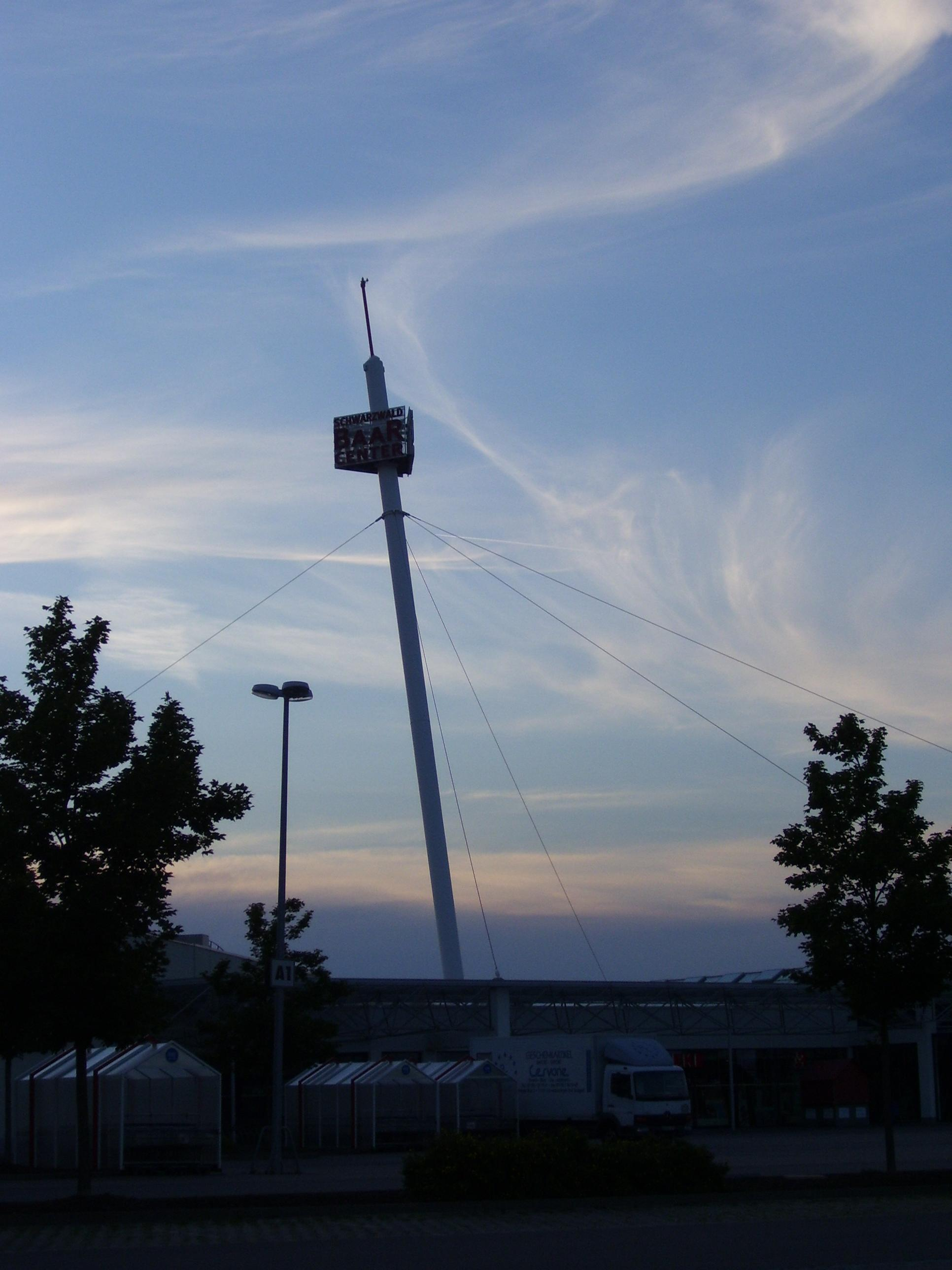 Tower, which holds the roof of Schwarzwald-Baar-Center at Villingen-Schwenningen. Photographd by myself on July 26th, 2007